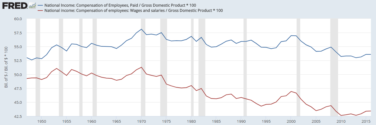 The image shows U.S. total compensation and wages/salaries (a subset of total compensation), each relative to GDP, for 1950-2013. These are a proxy for the share of national income going to labor as opposed to capital. It shows the relative share of GDP for labor declining since 1970. Another version with the denominator as national income is included here[1] A NYT article illustrating the concepts is here.[2]